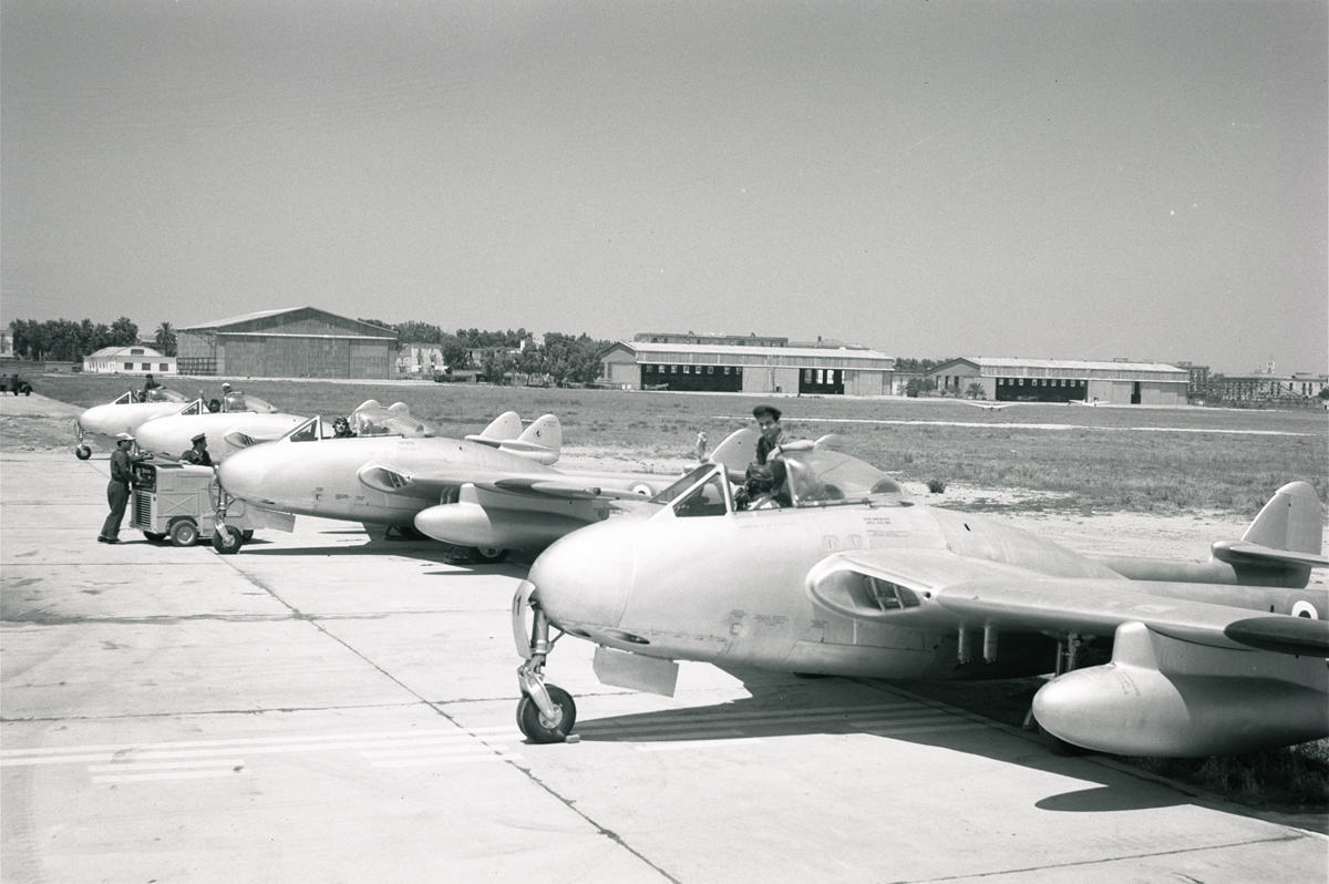 DH.100 Vampire Cavallino Rampante acrobatic eam